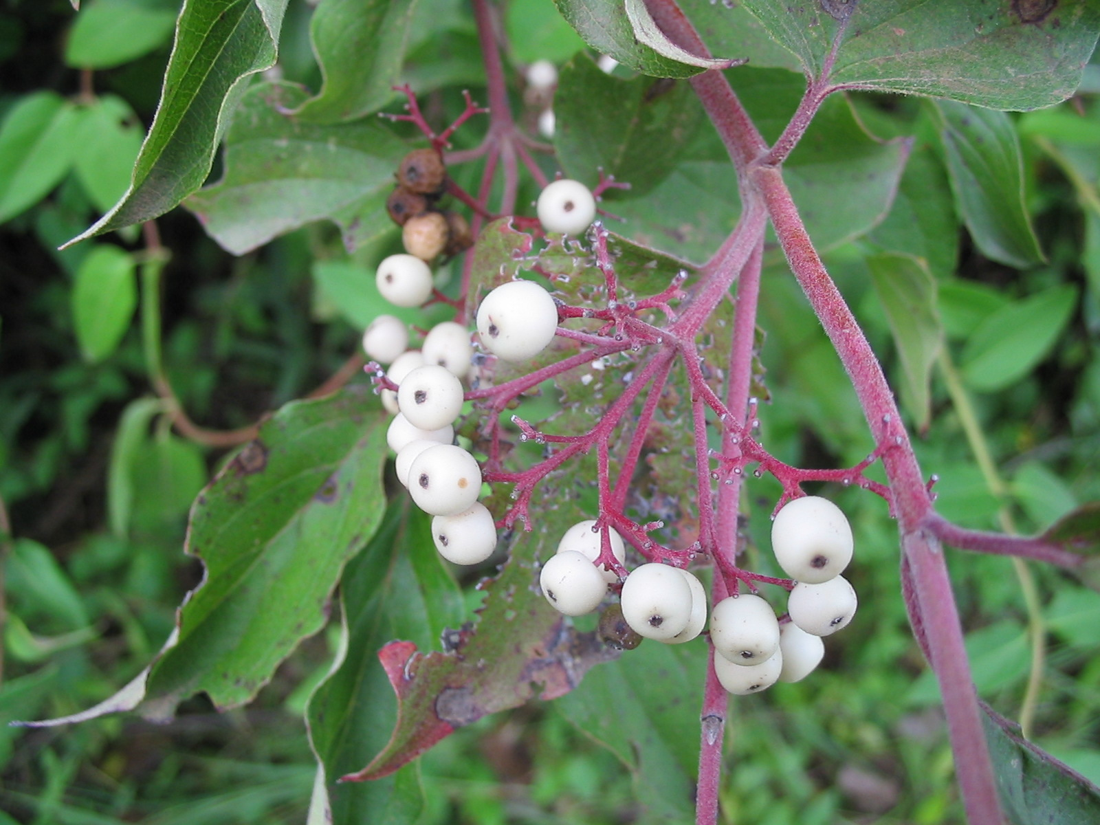 Northern Swamp Dogwood berries